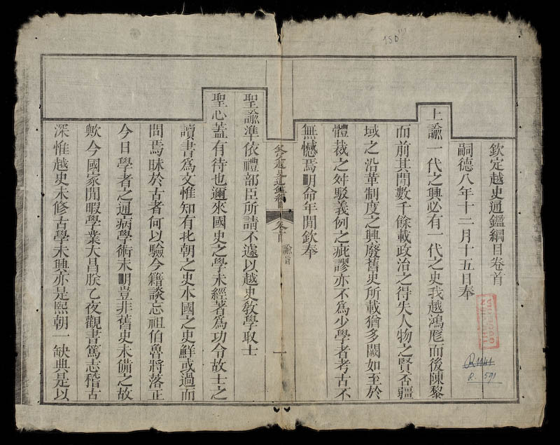 The First Volume(卷之一；quyển thủ-01) of "Khâm định Việt sử thông giám cương mục" (《欽定越史通鑑綱目》)